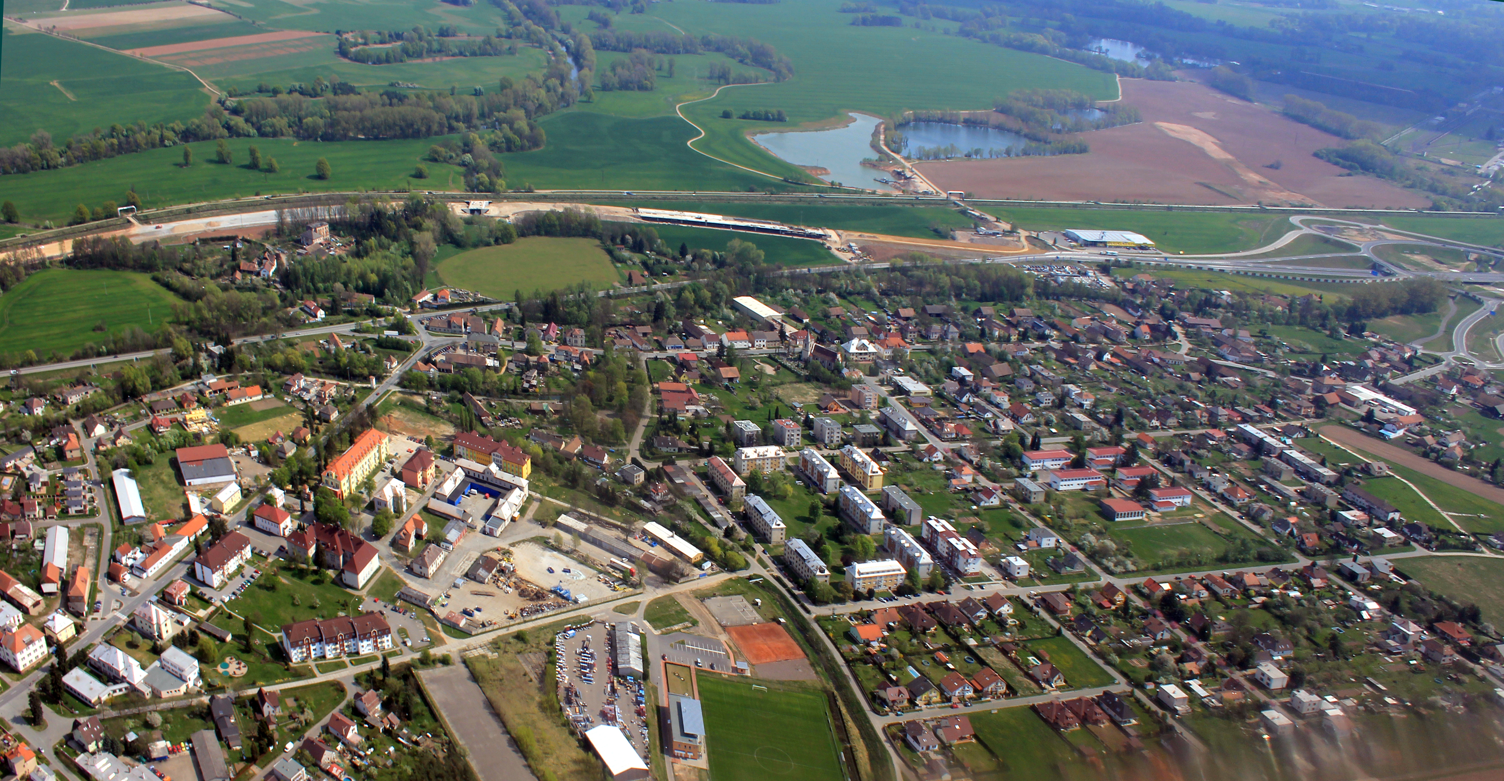 Village Opatovice nad Labem from air, eastern Bohemia, Czech Republic